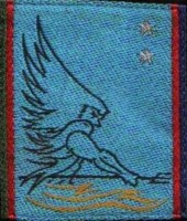 crest of the 31st Brigade. Which represent Poseidon, other known in Roman mythology as Neptune with his Trident in the middle of left colors of the Foreign Legion in Green and Red and right colors in Blue and Red representing the Troupes de marine of the French Army.